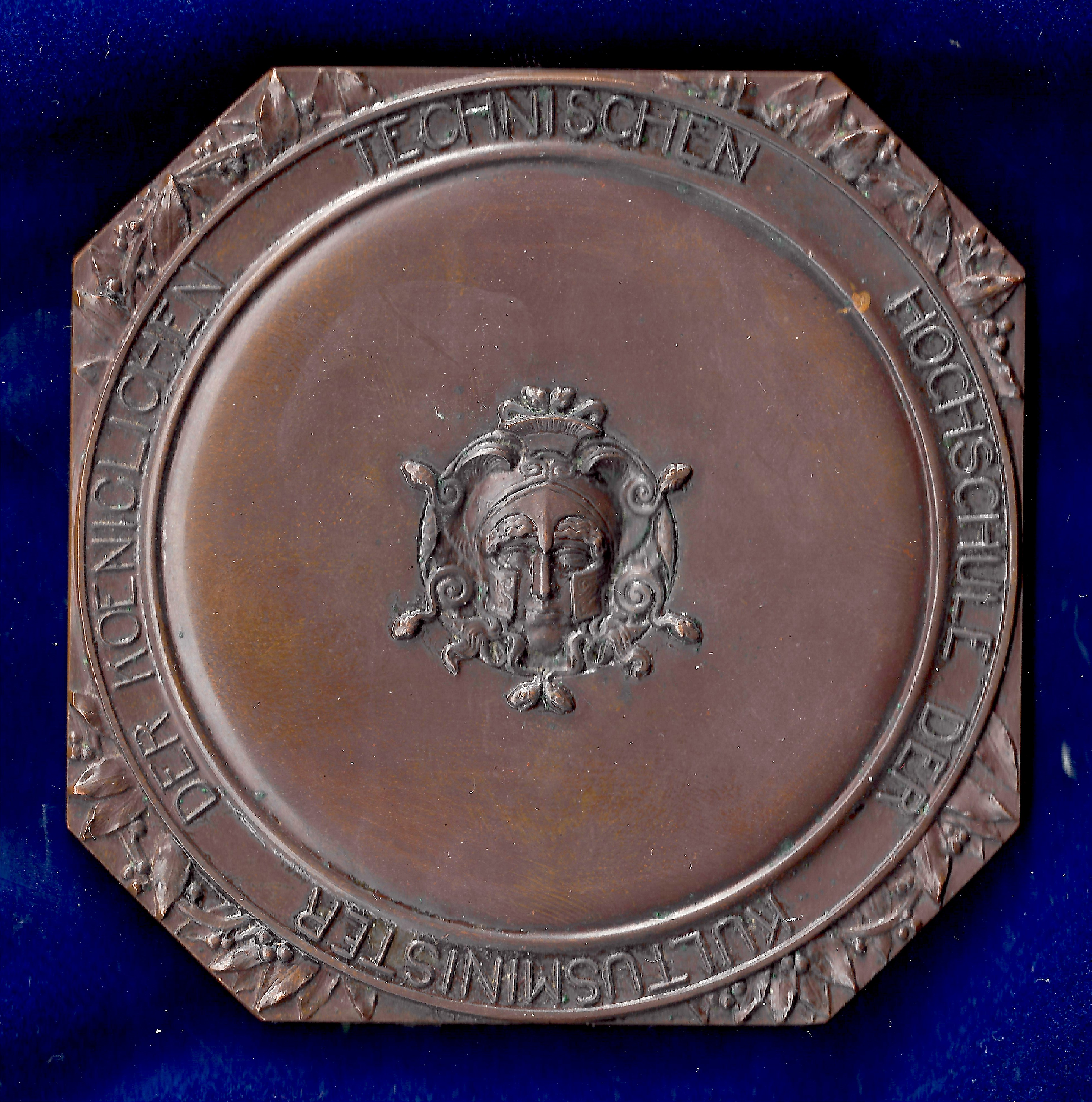 1899 early Art Nouveau University Medal TH Berlin, 100th Anniversary, today Technische Universität. Octagonal plaque medallion 72 x 72 mm. Around ancient head: "DER KULTUSMINISTER DER KŒNIGLICHEN TECHNISCHEN HOCHSCHULE"/ 6 lines on monument: "KOENIGLICHE BAUAKADEMIE 1799 BERLIN 1899 KOENIGLICHE TECHNISCHE HOCHSCHVLE". Universitätsarchivs Heidelberg XIIIa/57. Artist: A. (August) Vogel, 1859 Berlin - 1932 Berlin Condition: UNCIRCULATED.